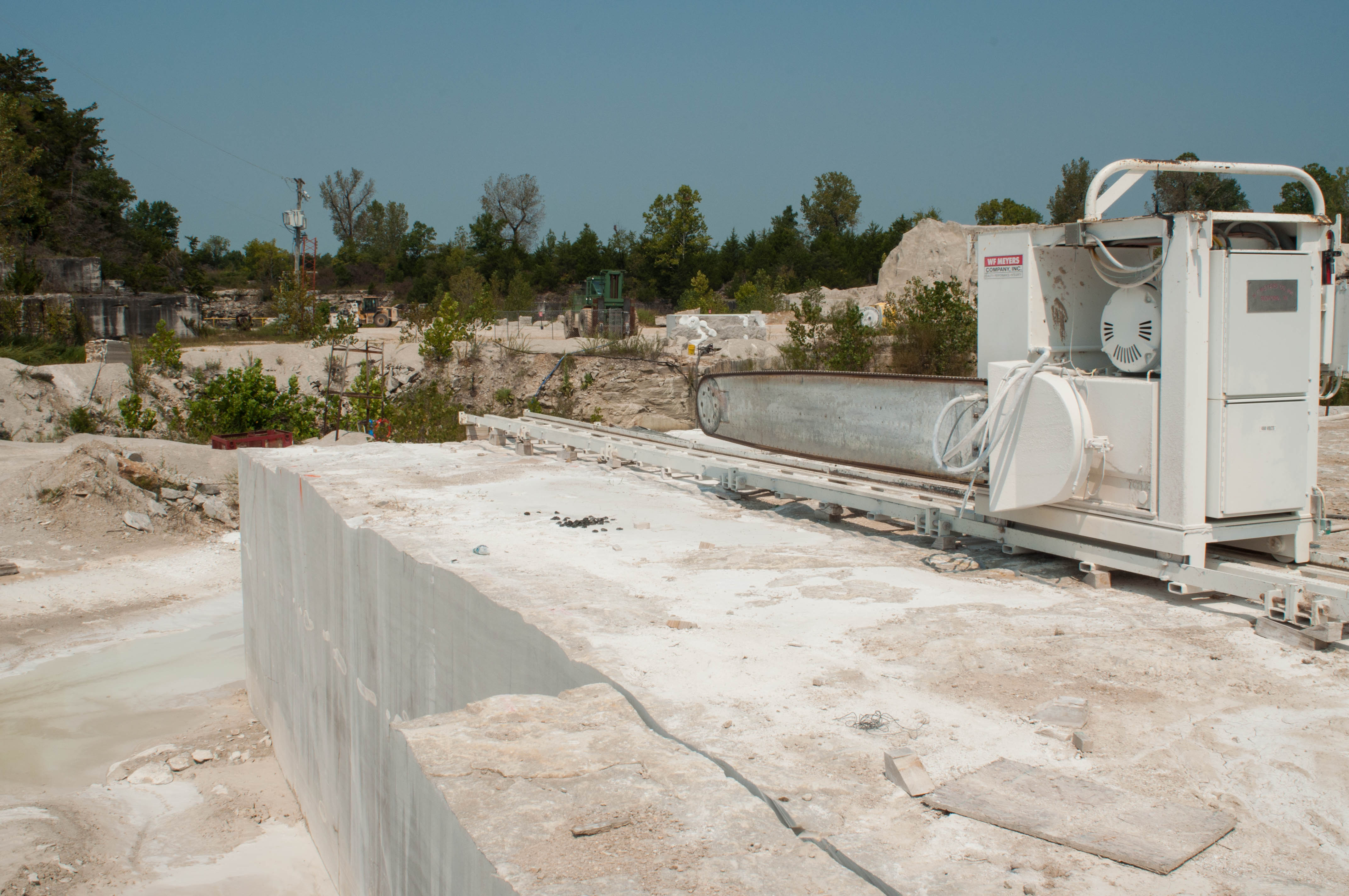 Limestone saw